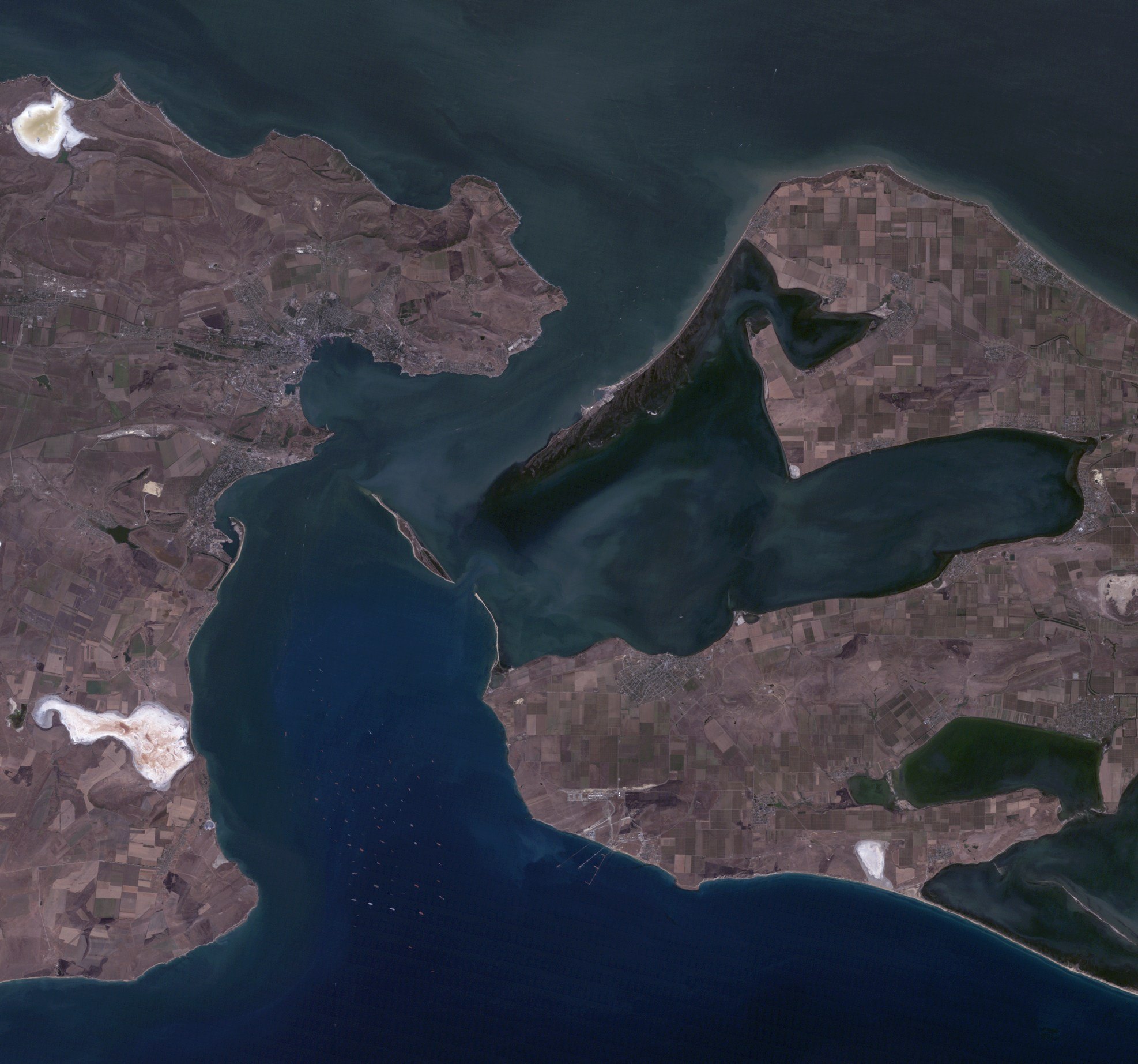 Kerch Strait, Ukraine, Russia, near natural colors satellite image, LandSat-5, 2011-08-30, resolution 30 m